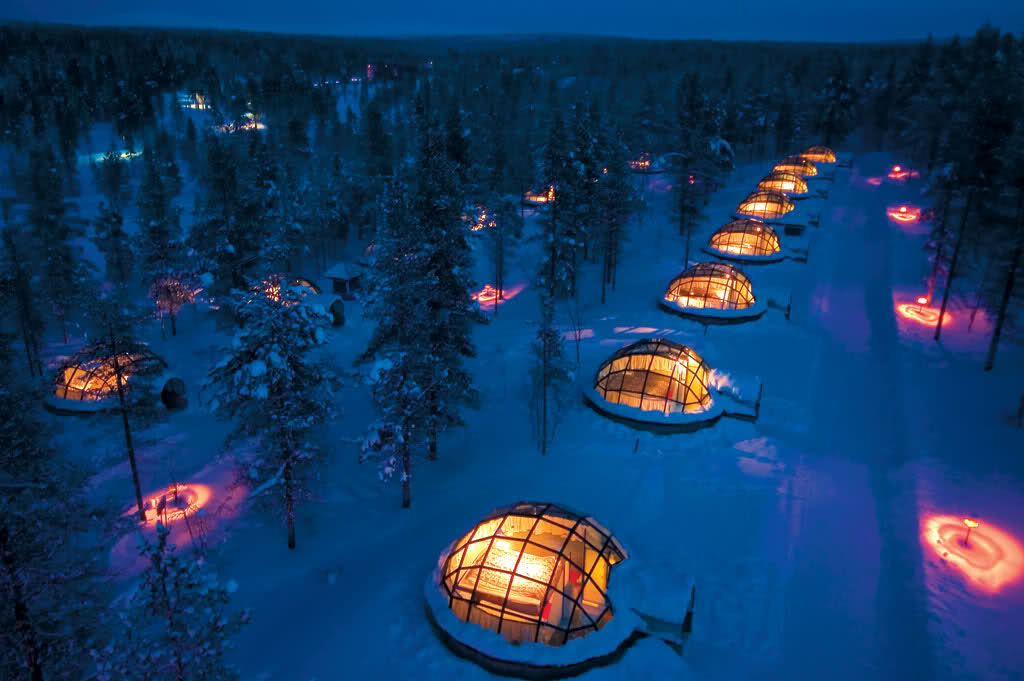 Kakslauttanen igloo village, Saariselkä, Sodankylä, Finland